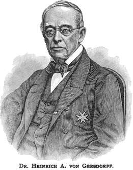 Portrait of Heinrich August von Gerstorff, in Leipziger populäre Zeitschrift für Homöopathie 28 (1897), p. 124